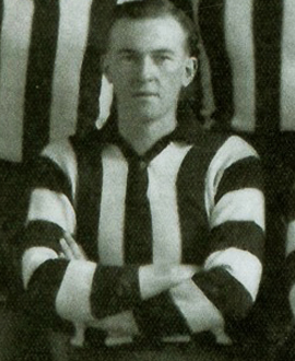 Photo of Norm Crewther from 1941-1943